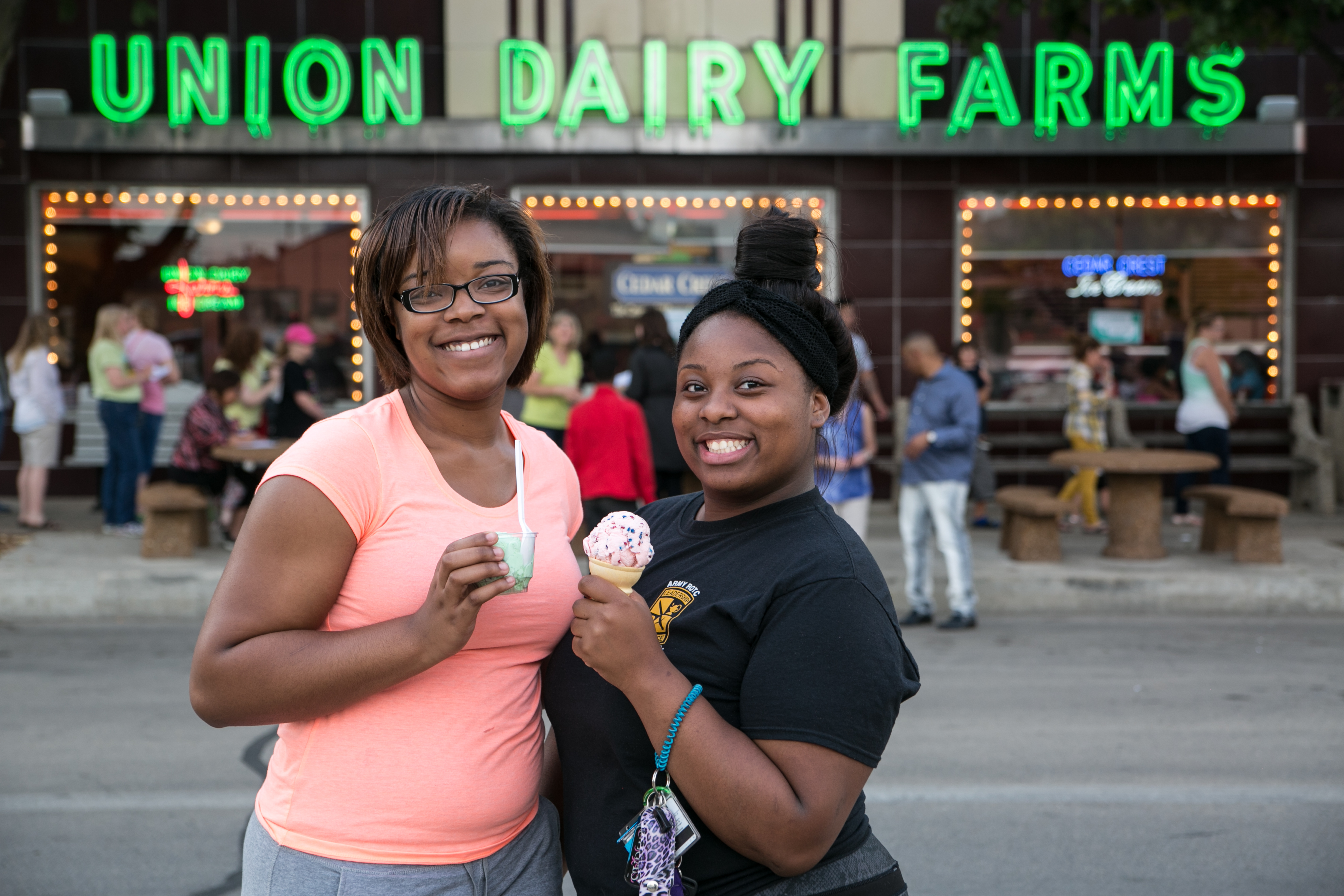 Photo by D+F Photography. Enjoying a night an afternoon at Union Dairy in Downtown Freeport